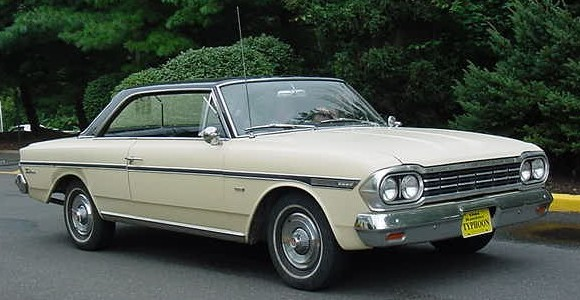 1964 Rambler Classic Typhoon made by American Motors Corporation (AMC). Special edition two-door hardtop that featured the company's new 232 cu in (3.8 L) straight six-cylinder engine. Total production was 2,500 Typhoons, and all were finished in a two-tone "Solar Yellow" body with a "Classic Black" roof.